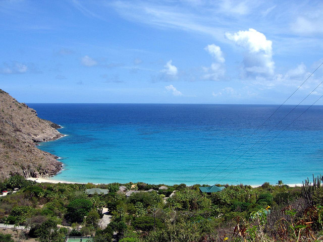 A beach in St. Barts